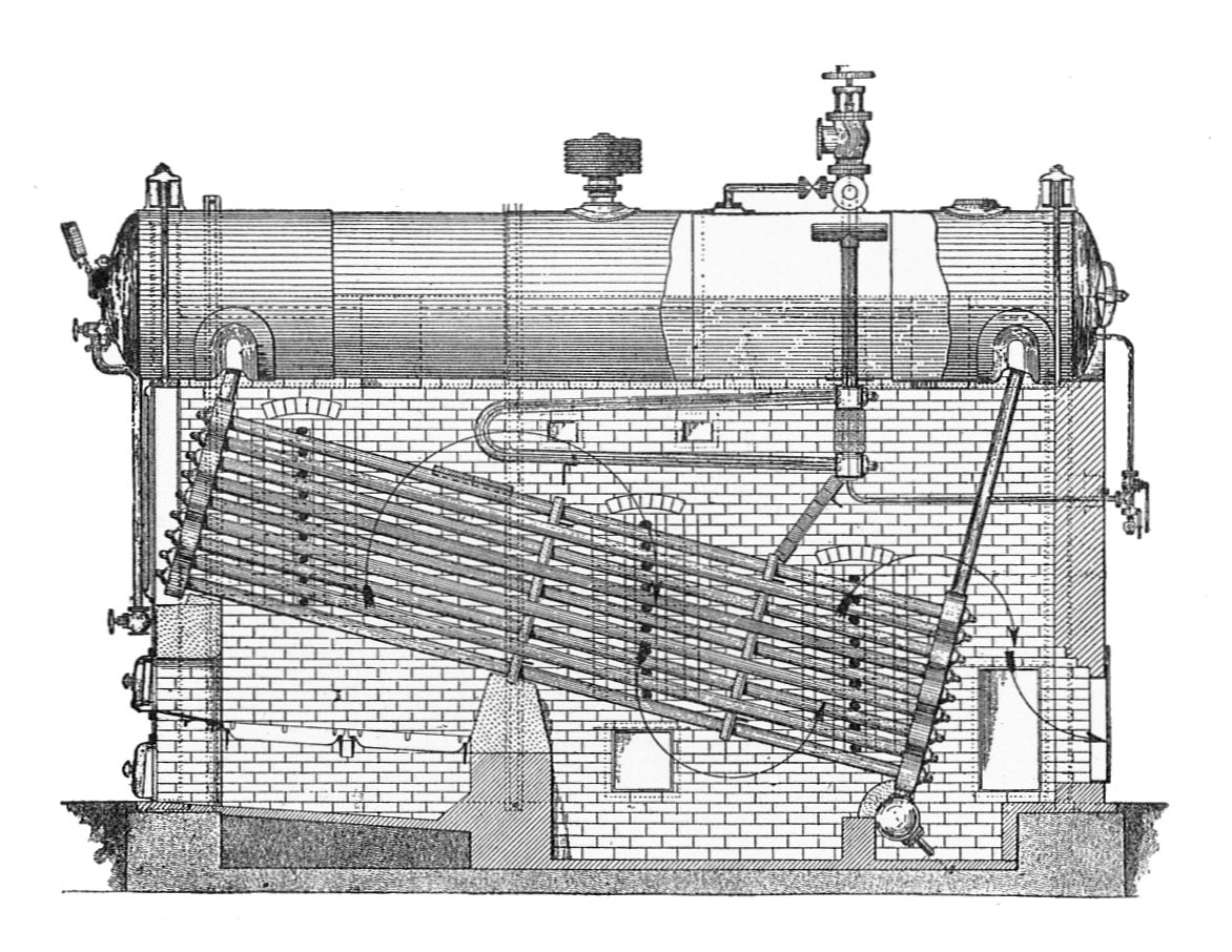 Babcock & Wilcox superheater (Rankin Kennedy, Modern Engines, Vol IV).jpg